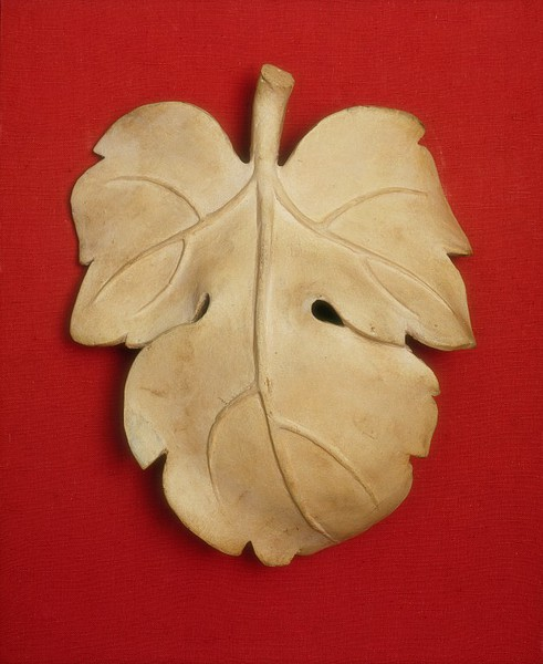 Fig Leaf for David, D. Brucciani & Co, ca. 1857. V&A Museum no. REPRO.1857A-161 A fig leaf cast in plaster used to cover the genitals of a copy of a statue of David in the Cast Courts of the Victoria and Albert Museum. In the reign of Queen Victoria, displays of male nudity was contentious and the Queen herself was said to find it shocking. The museum commissioned this fig leaf and kept it in readiness in case of a visit by the Queen or other female dignitary: the fig leaf was then hung on the figure using a pair of hooks. Today, the fig leaf is no longer used, but it is displayed in a case at the back of the cast's plinth.